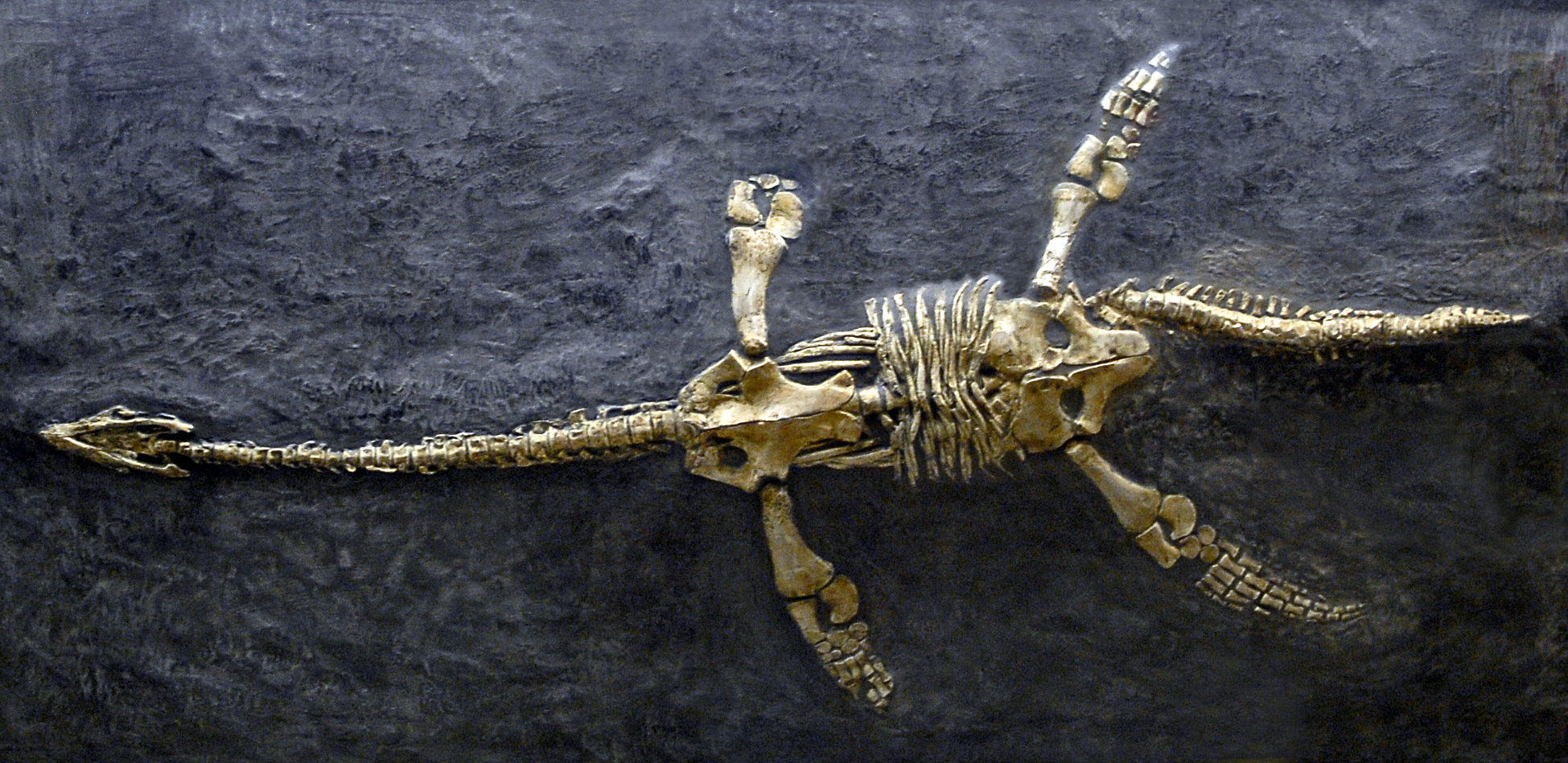 Thalassiodracon hawkinsi skeleton, Museo Civico di Storia Naturale di Milano